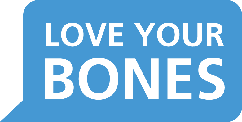 WOD slogan